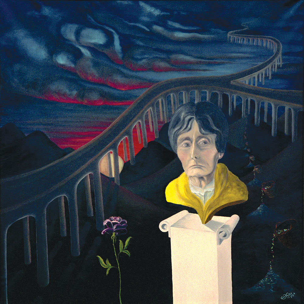 Lubo Kristek: Heavenly Highway of Aunt Fränzi, 1974–5, oil on canvas, 82 × 82 cm, Neues Stadtmuseum, Landsberg am Lech